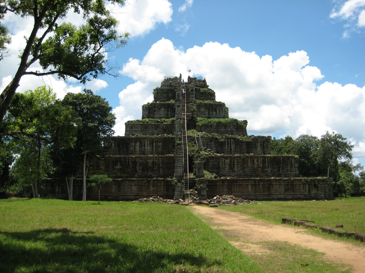 Koh Ker, Cambodia, was the temporary capital city of the Khmer Empire between 928 to 944 AD under king Jayavarman IV (928-941 AD) and king Harshavarman II (941-944 AD). The Koh Ker site is dominated by the Prang, the state temple of Jayavarman IV. The 36 meter tall pyramid is behind the Prasat Thom.